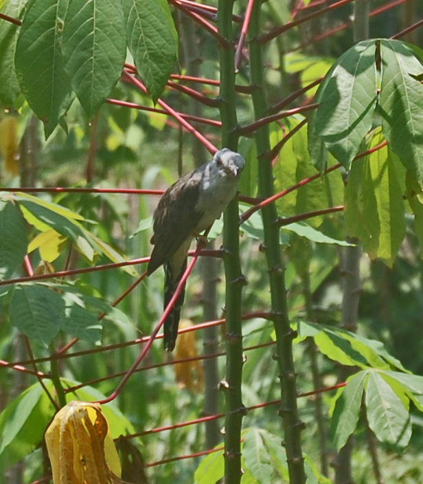 Plaintive cuckoo, Cacomantis merulinus. From Darmaga, Bogor, West Java, Indonesia